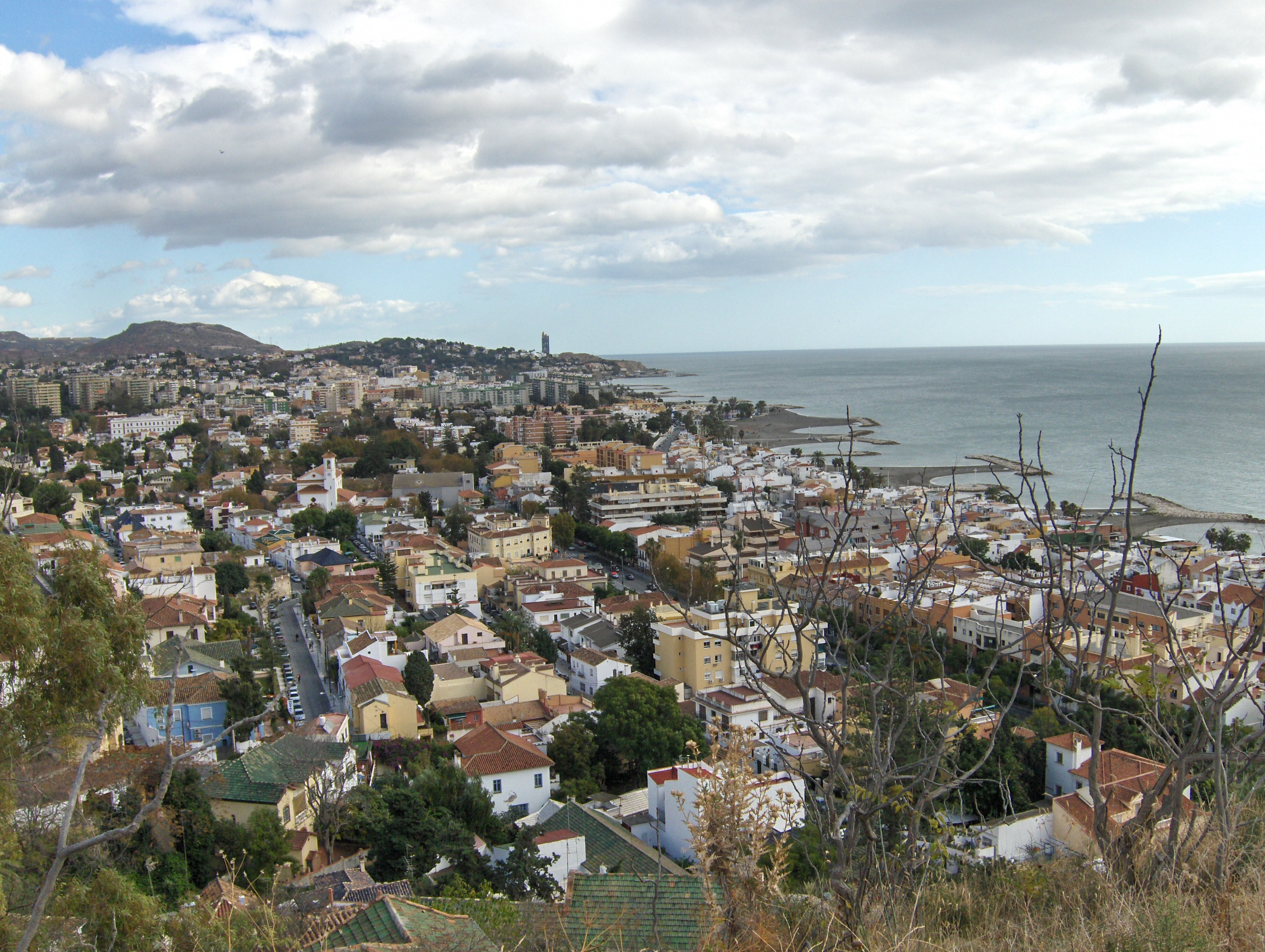 View of Pedregalejo, Málaga, Spain.